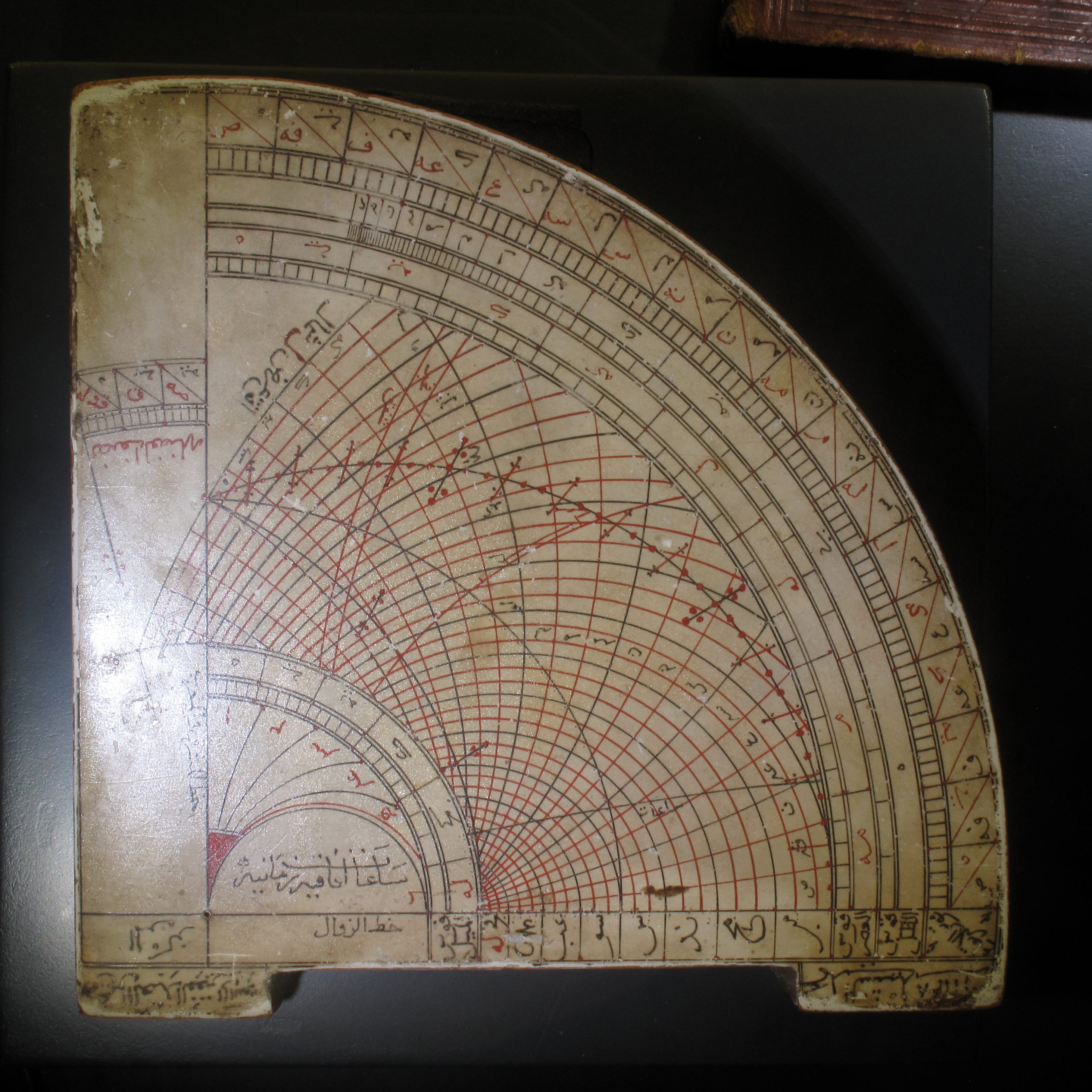 Arabic quadran astrolabe. Made in 1735. Laquered wood.Arabic inscription saying "may the owner live as long as there are stars in the Universe" On display at Port-Louis naval museum, accession number 11 NA 79